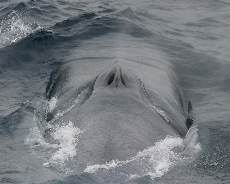 The blow holes of the Blue Whale